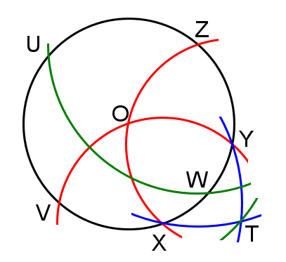 Self drawn illustration for Napoleon's problem